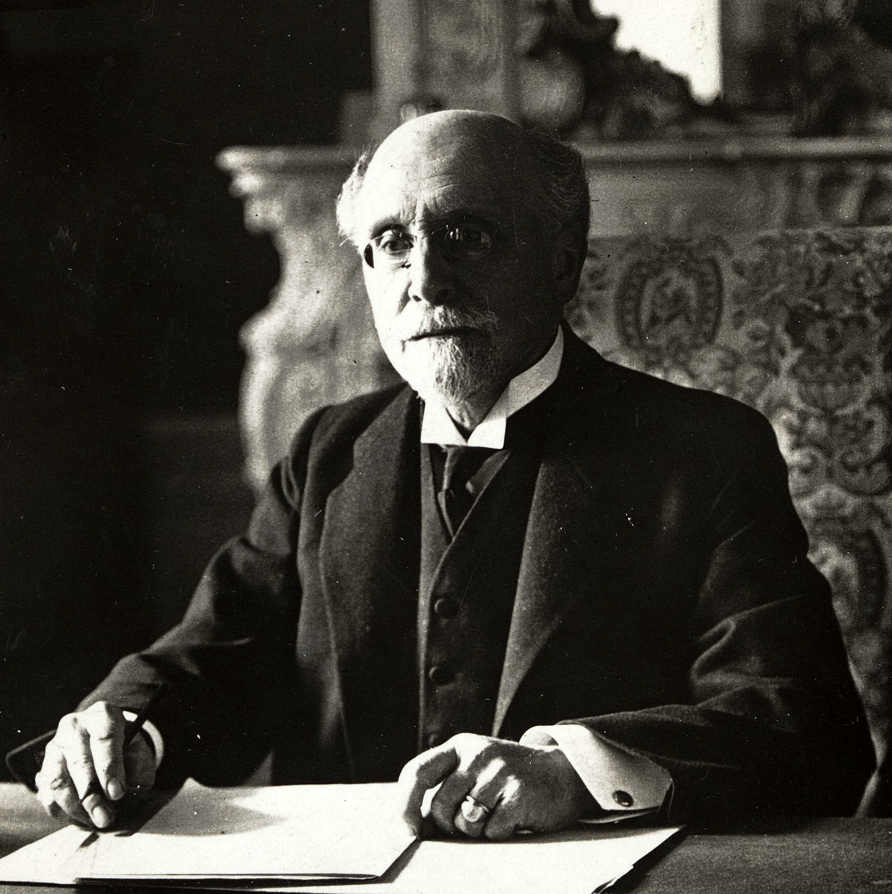 E.C. baron Sweerts de Landas Wyborgh